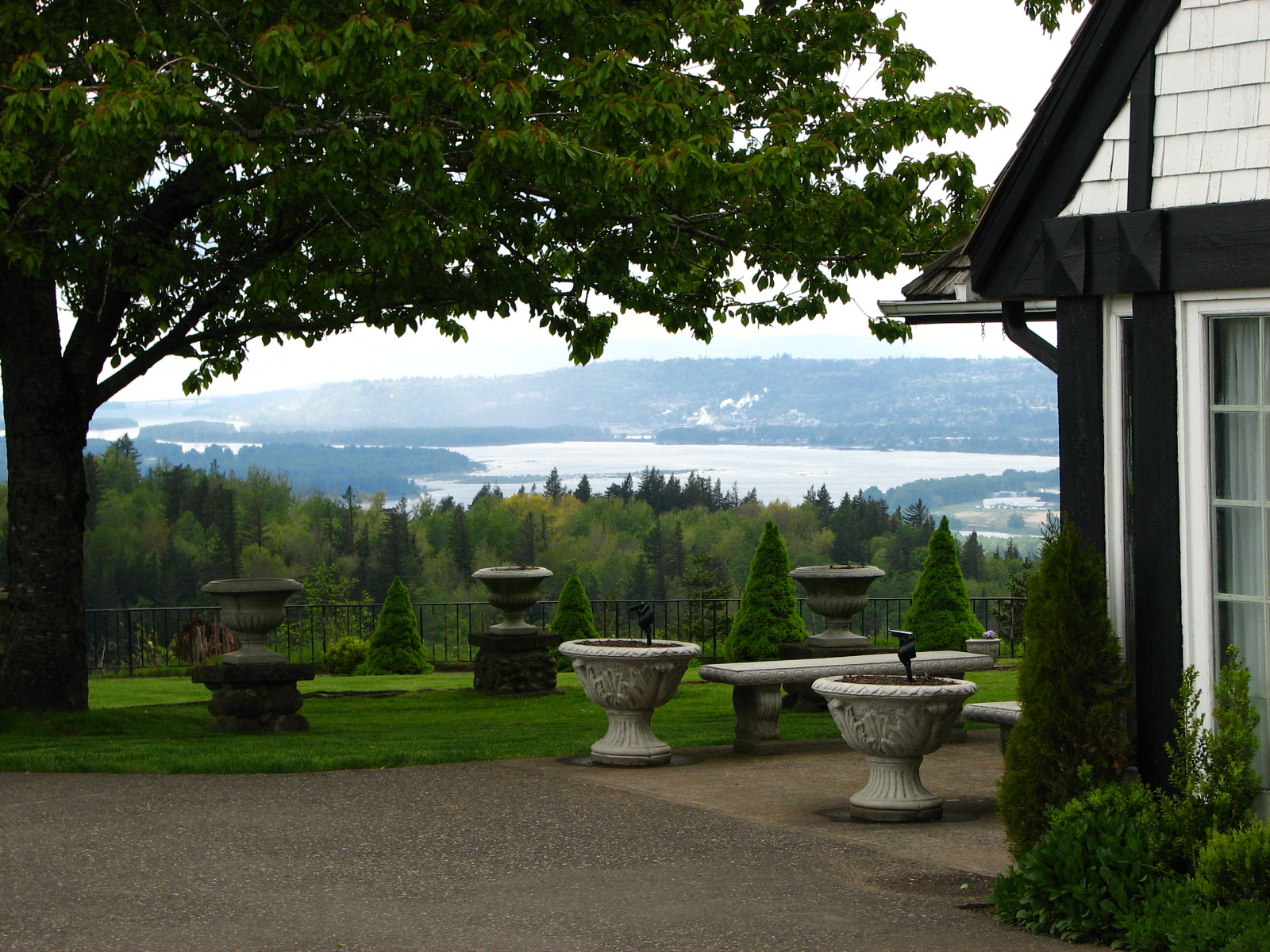 The eponymous view from the View Point Inn, a historic road house along the Columbia River Highway in Corbett, Oregon. May 4, 2007.